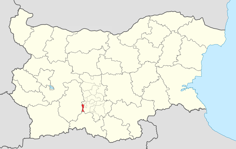 Location map of Krichim Municipality within Bulgaria and Plovdiv province